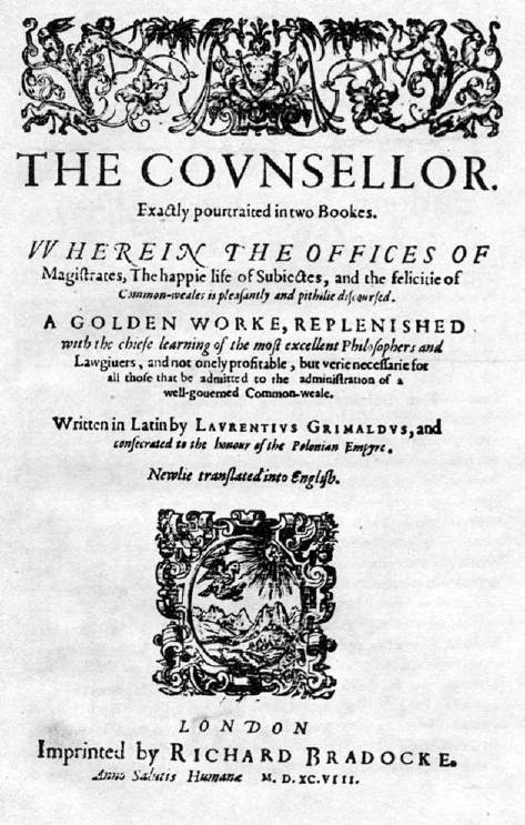 The title page of Wawrzyniec Grzymała Goślicki's The Counsellor